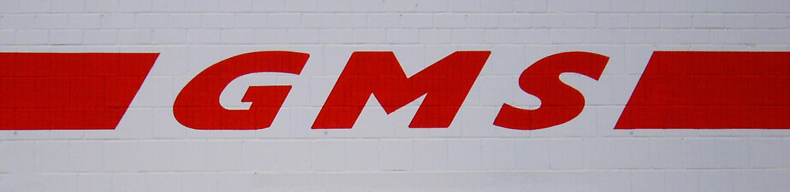 Logo der Firma GMS own work, papa1234 2007-02-07